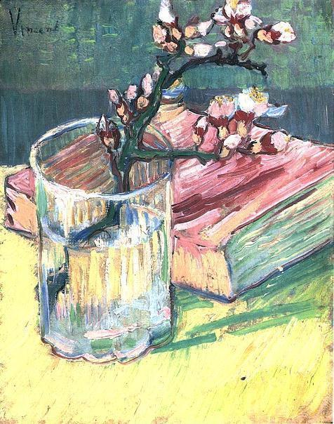 Oil painting reproduction of Vincent van Gogh